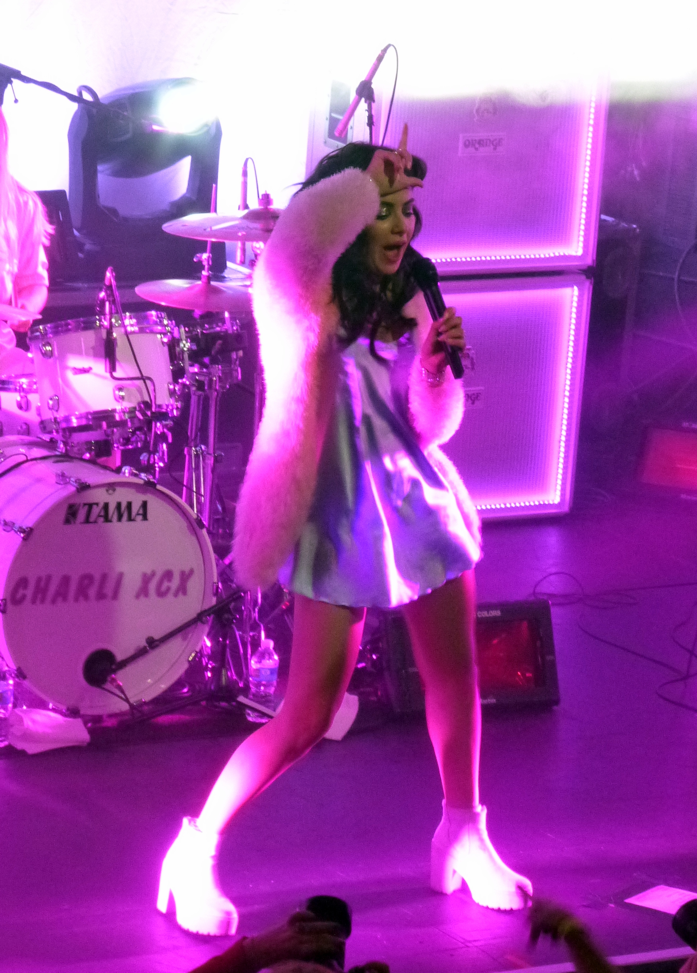 Charli XCX performing at St Andrews in Detroit, 10/11/14